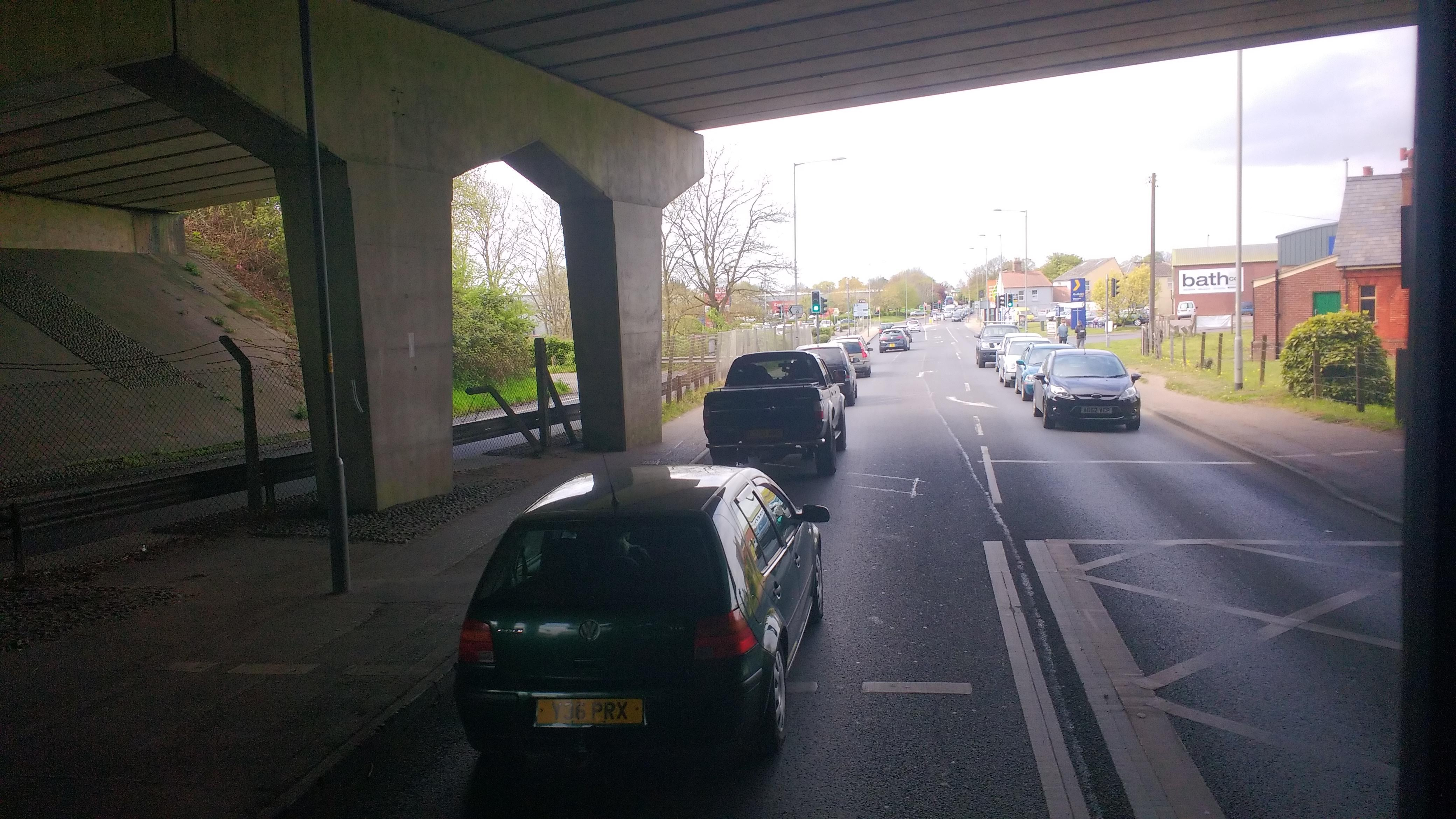 Yaxham Road